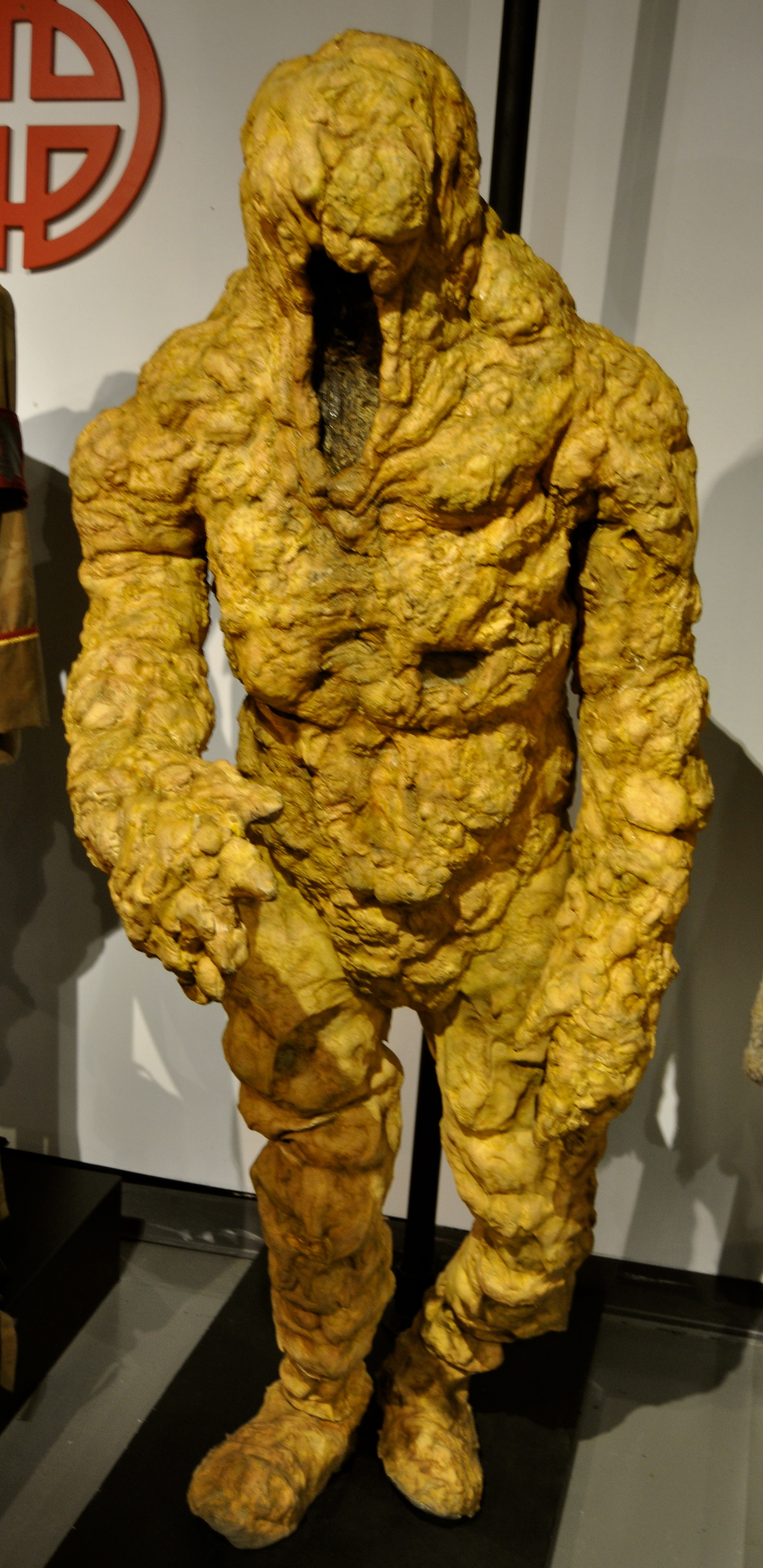 DWE Cardiff Bay, Port Teigr November 2016 Doctor Who Experience